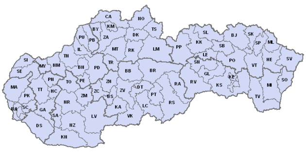 Map of slovak districts with its abbreviation